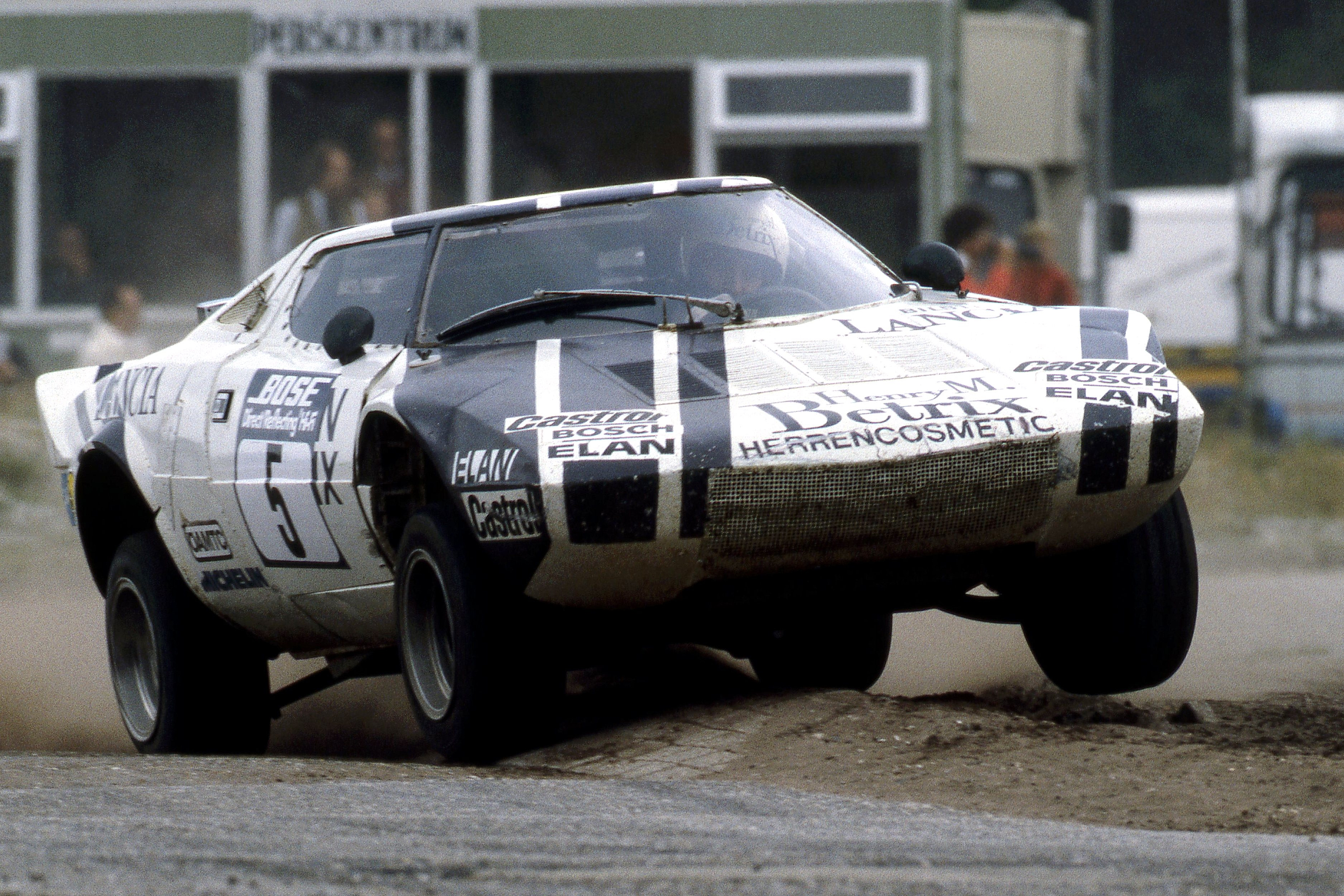 Austrian racer Andy Bentza pictured in the Summer of 1983 during a Rallycross race at the Eurocircuit at Valkenswaard in the Netherlands in the only Lancia Stratos HF with a 3 litre engine.